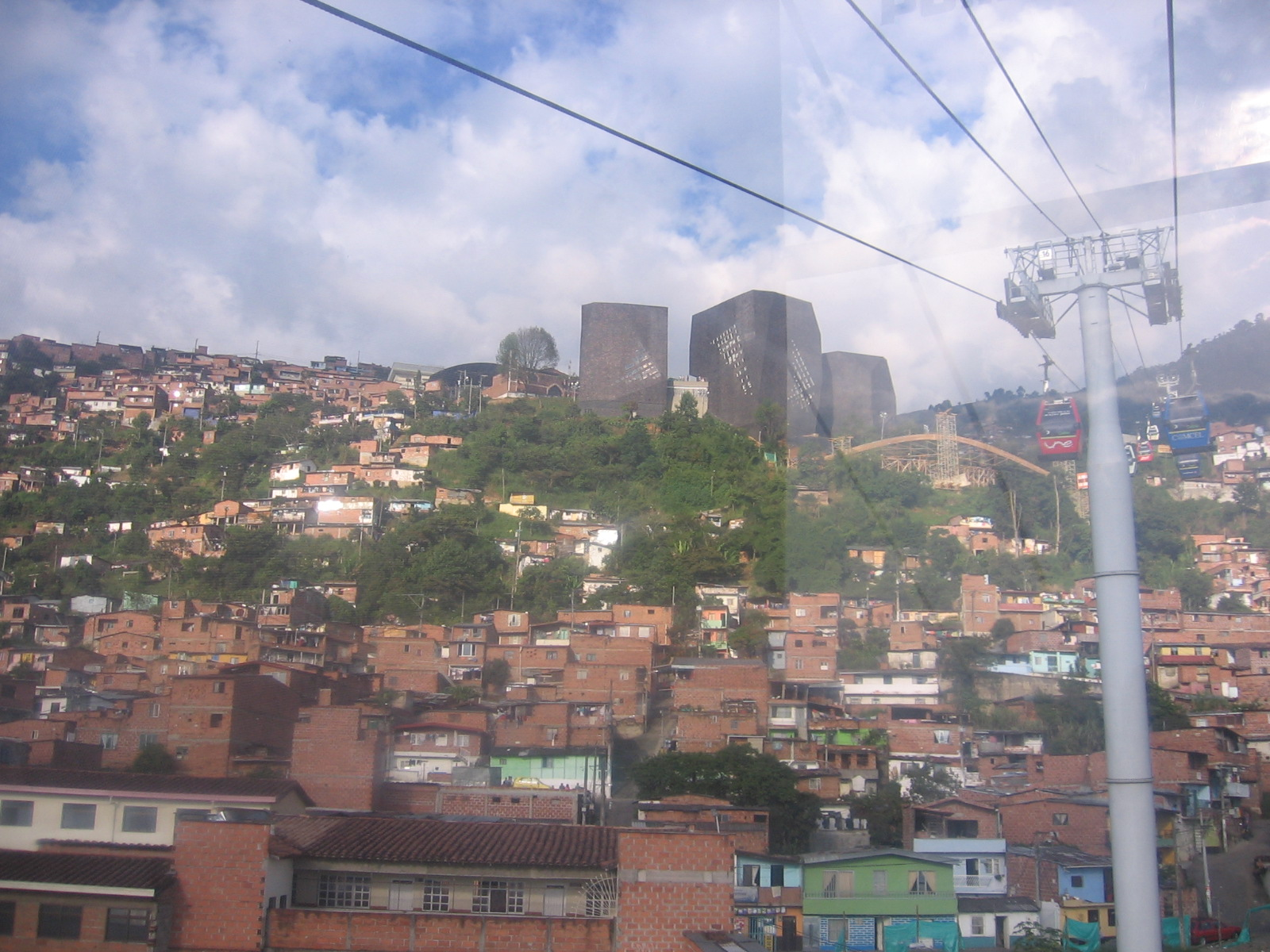 A view of Barrio Santo Domingo Savio, North-East of Medellín, Colombia, from the Metro of Medellín. The black building is the Plaza España Library.